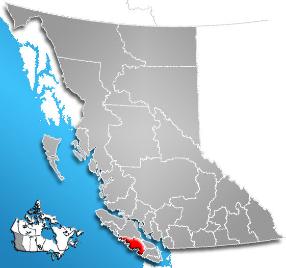 Location of Alberni-Clayoquot Regional District, British Columbia